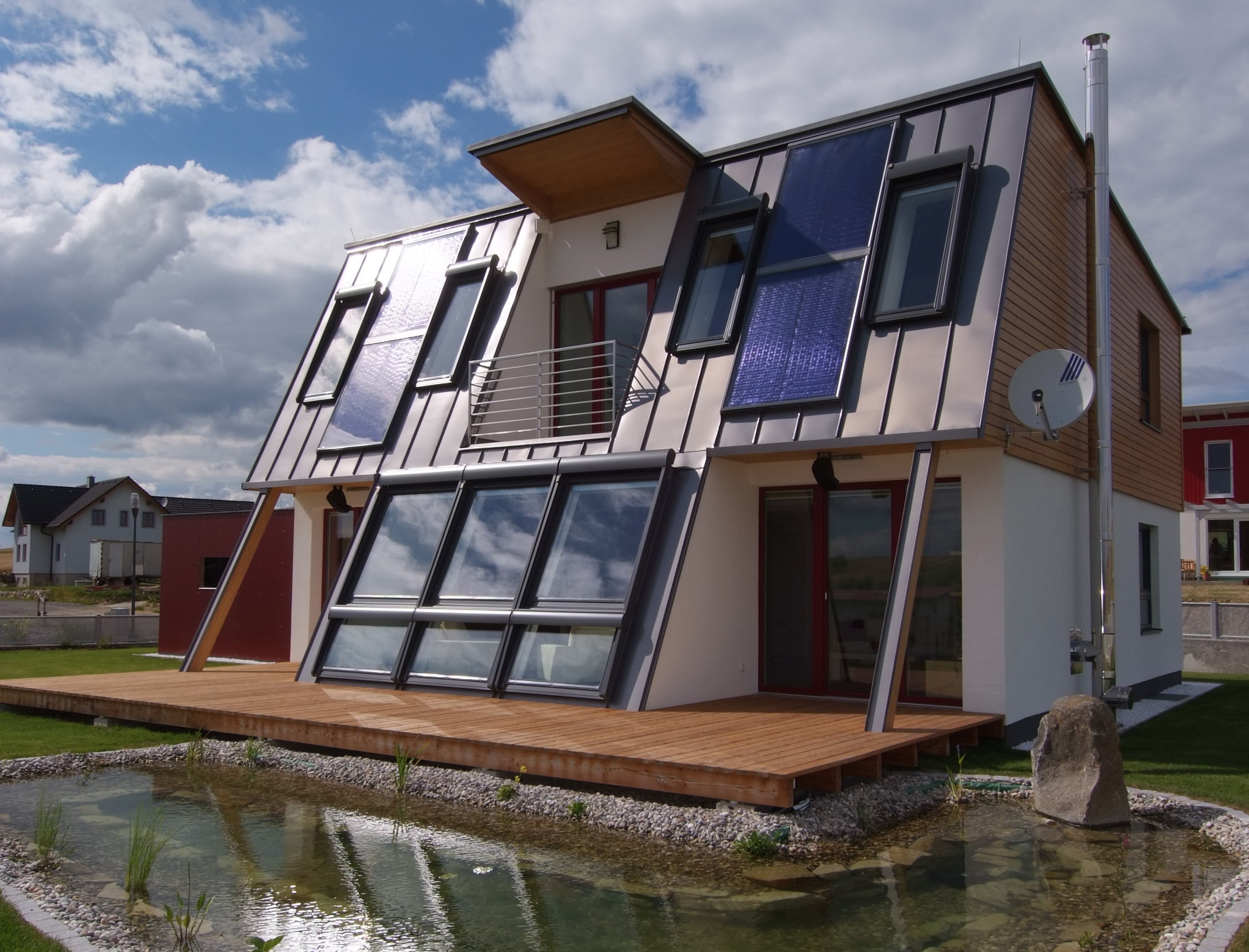 HARTL HAUS "Energy X"